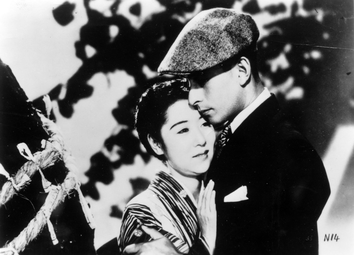 Kinuyo Tanaka and Ken Uehara in Aizen katsura (愛染かつら) directed by Hiromasa Nomura (1938)